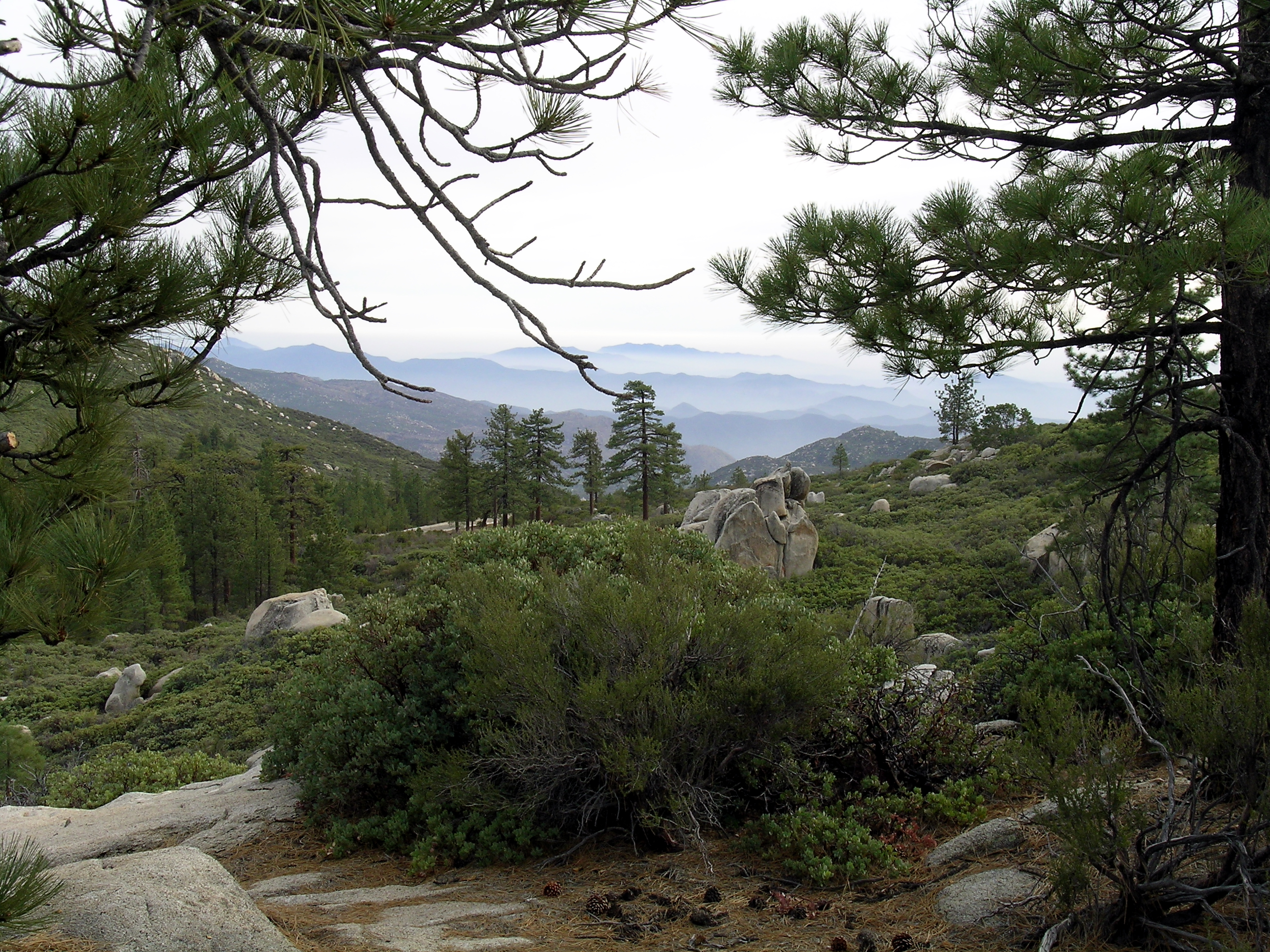 Facing westward (Pacific Ocean) from the Sierra San Pedro Martir, in Sierra de San Pedro Mártir National Park, Baja California, Mexico. Trees are Pinus jeffreyi, shrubs are mostly manzanitas (greenleaf manzanita (Arctostaphylos patula) and Pringle's manzanita (Arctostaphylos pringlei). Trees are Pinus jeffreyi.